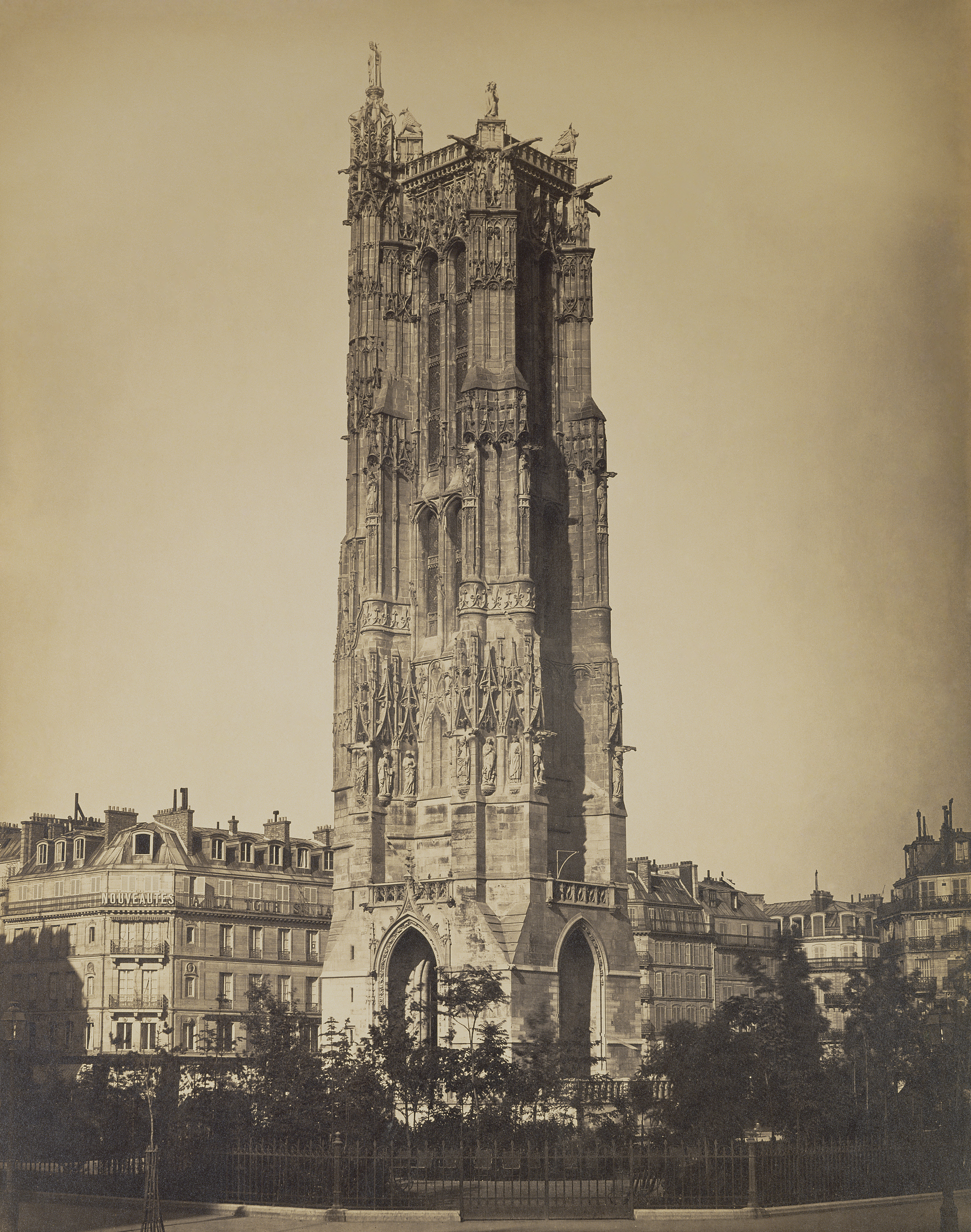 Towering over the buildings around it, this Parisian landmark had been recently restored and surrounded by newly planted trees just before Gustave Le Gray photographed it. The tower is all that remains of a church built in the 1500s and demolished in 1797. During the reign of Napoléon III, many Paris buildings were torn down to make way for wider streets or new structures. The Gothic Tour Saint-Jacques was spared this fate thanks to massive public protests.